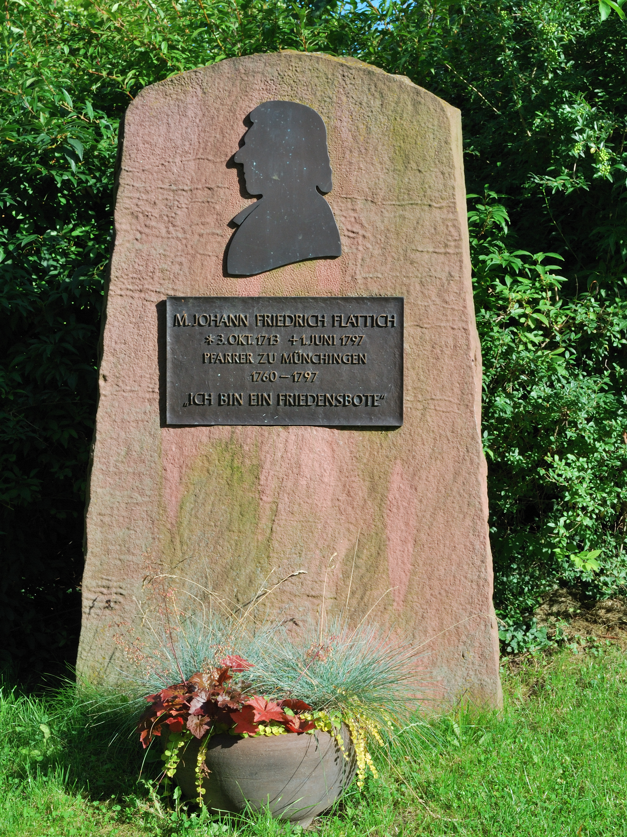 Memorial stone for Johann Friedrich Flattich at the Johanneskirche in Münchingen in Southern Germany. Flatich was pastor in Münchingen in the years 1760 to 1797.